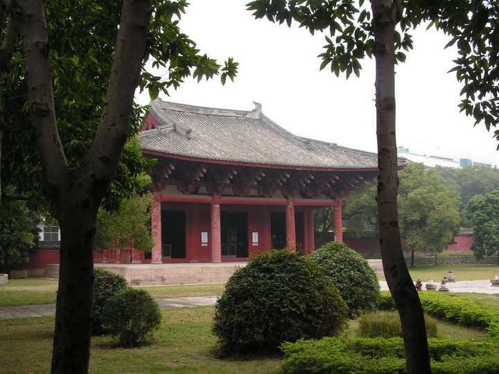 The main hall of Hualinsi Temple, Fuzhou, Fujian Province, China Mìng-dĕ̤ng-ngṳ̄: Huà-lìng-sê Duâi-dâing, diŏh Dṳ̆ng-guók Hók-gióng-sēng Hók-ciŭ-chê